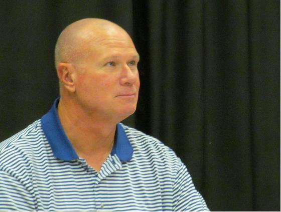 Fomer Kansas City Royals pitcher Mark Davis at an autograph signing in Valley Forge PA 2012 12 08